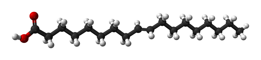 Ball-and-stick model of the elaidic acid molecule, C18H34O2. X-ray crystallographic data from Acta Cryst. (2005). E61, o3730-o3732